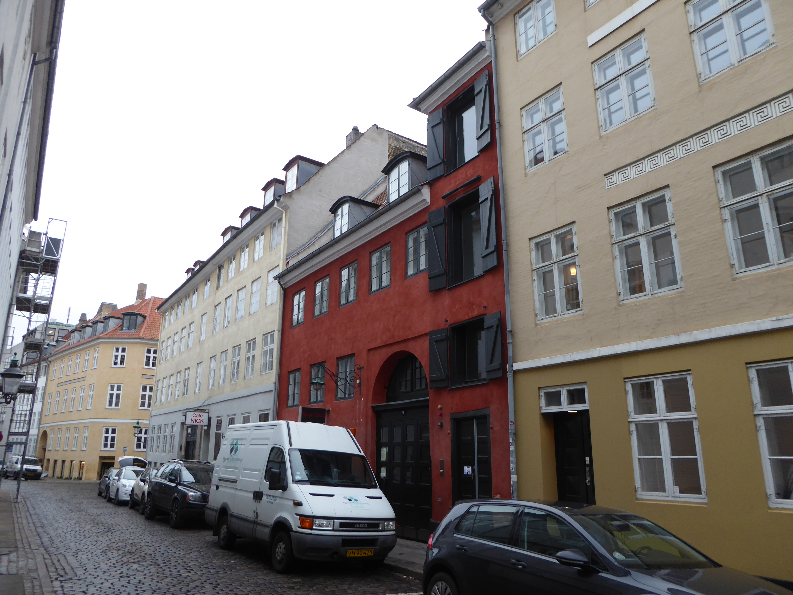 The street Nikolajgade in Indre By in Copenhagen.